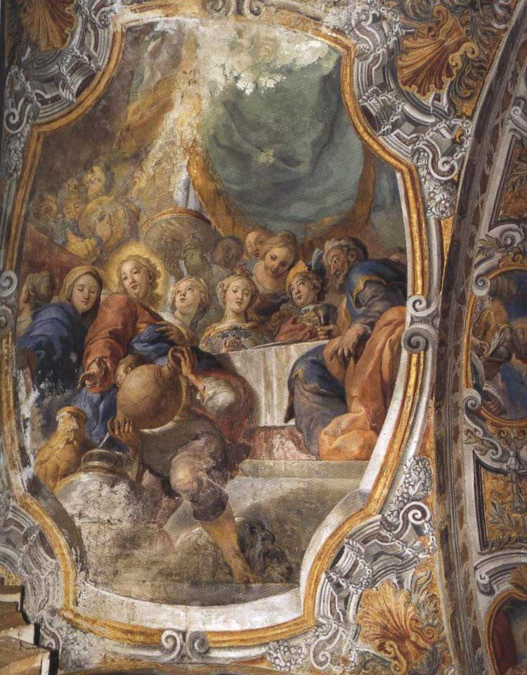 Borremans "Marriage in Cana" (fresco in Martorana)